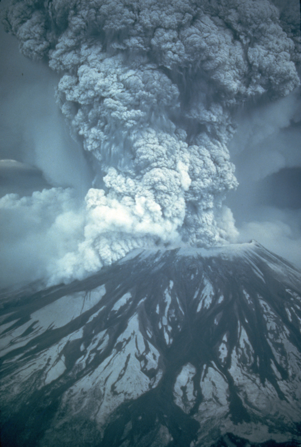 On May 18, 1980, at 8:32 a.m. Pacific Daylight Time, a magnitude 5.1 earthquake shook Mount St. Helens. The bulge and surrounding area slid away in a gigantic rockslide and debris avalanche, releasing pressure, and triggering a major pumice and ash eruption of the volcano. Thirteen-hundred feet (400 meters) of the peak collapsed or blew outwards. As a result, 24 square miles (62 square kilometers) of valley was filled by a debris avalanche, 250 square miles (650 square kilometers) of recreation, timber, and private lands were damaged by a lateral blast, and an estimated 200 million cubic yards (150 million cubic meters) of material was deposited directly by lahars (volcanic mudflows) into the river channels. Fifty-seven people were killed or are still missing. USGS Photograph taken on May 18, 1980, by Austin Post ( This is a cropped, smaller version of the 2048 x 3072 pixel USGS source image.